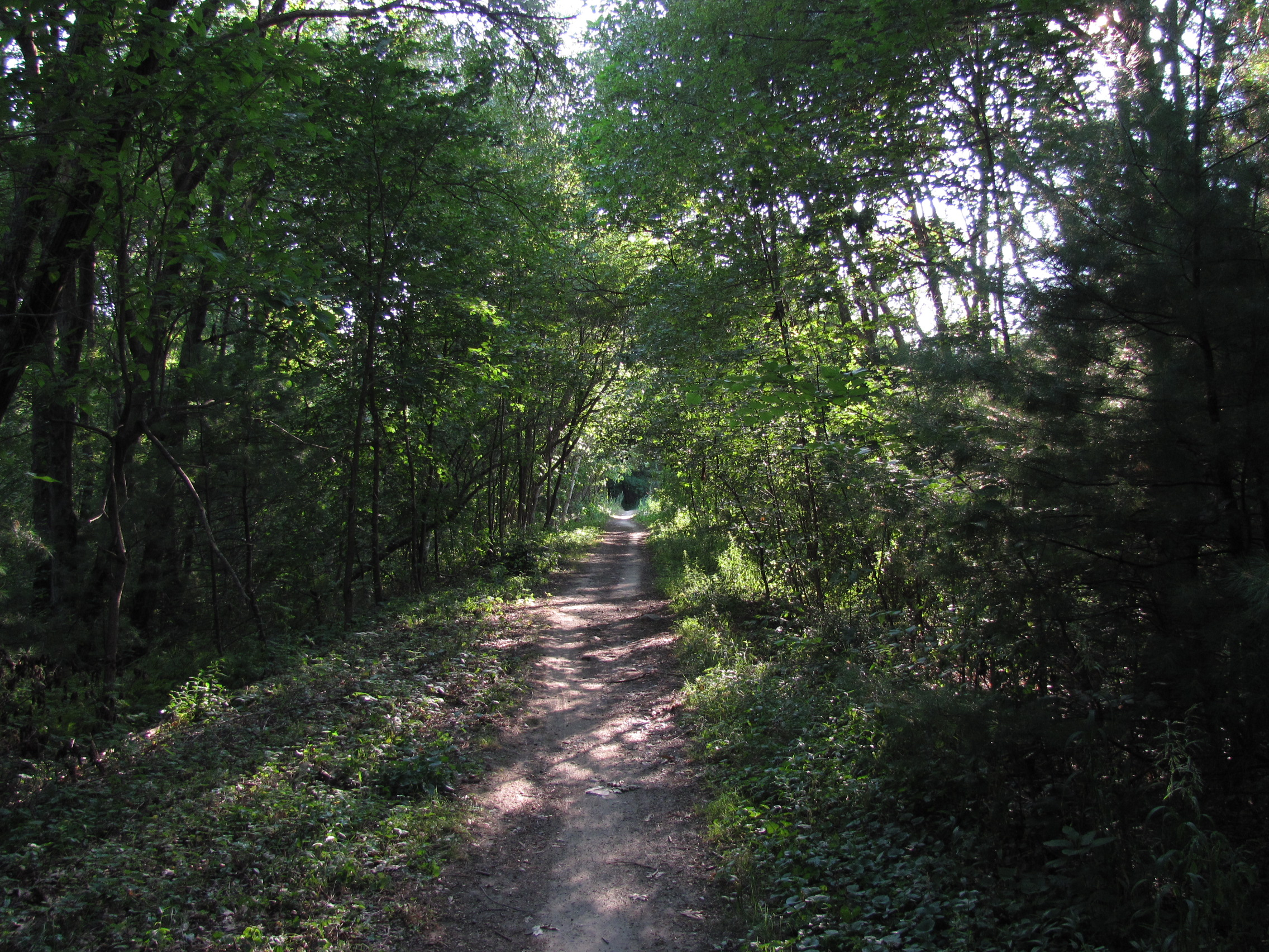 Reformatory Branch Rail Trail, Bedford Massachusetts, August 2010